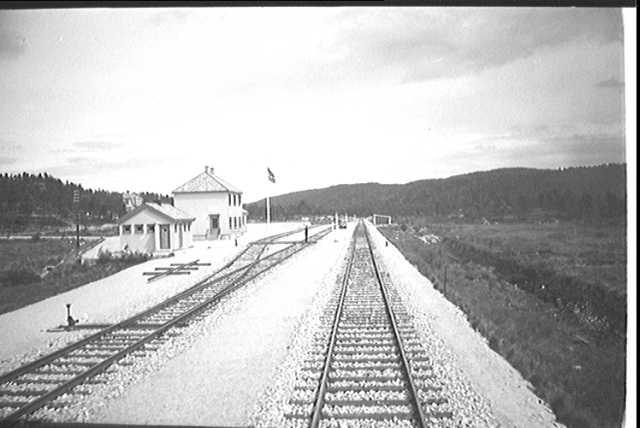 Oggevatn Station in Birkenes, Norway, on the Sørland Line